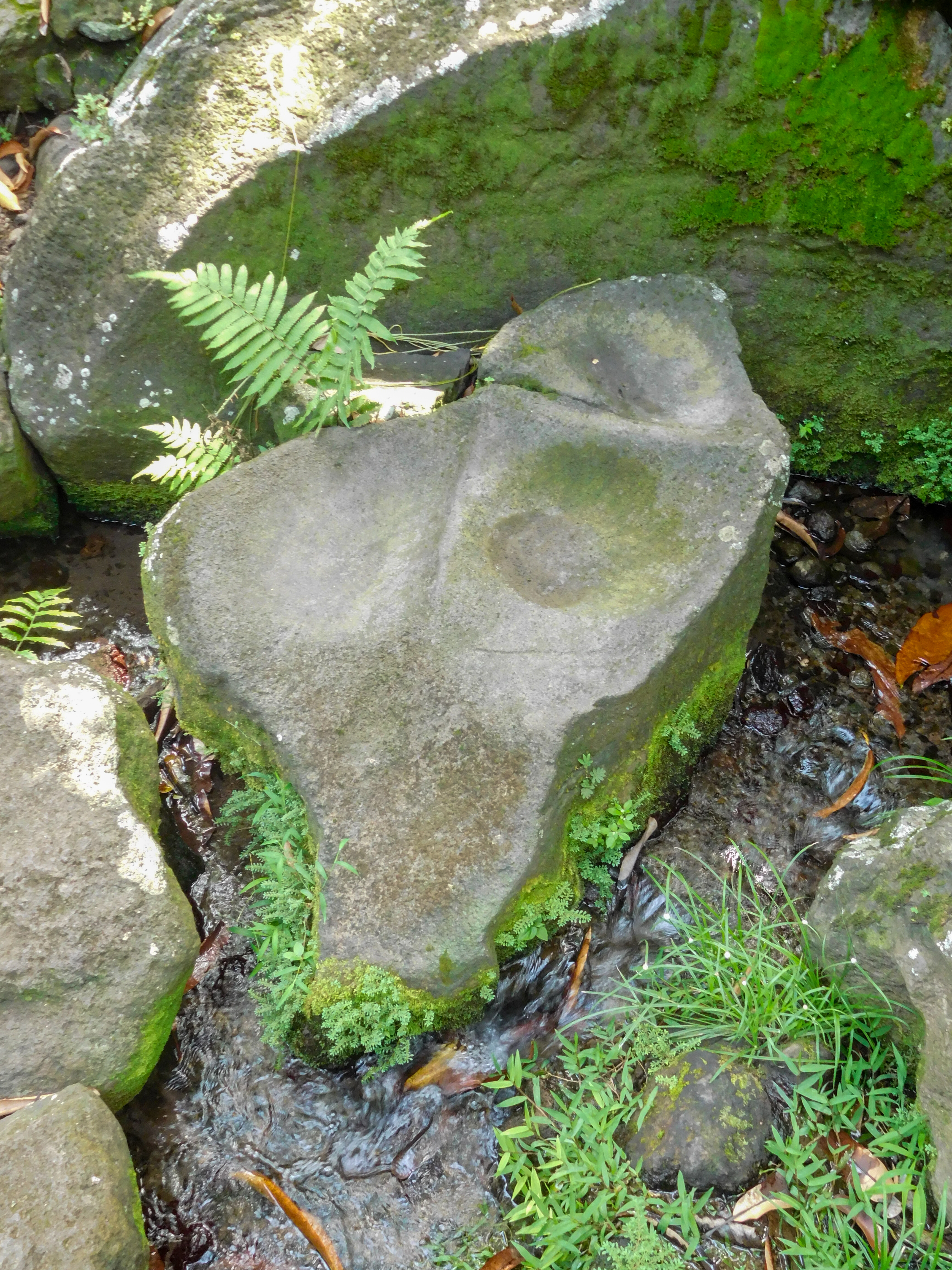 polissoir